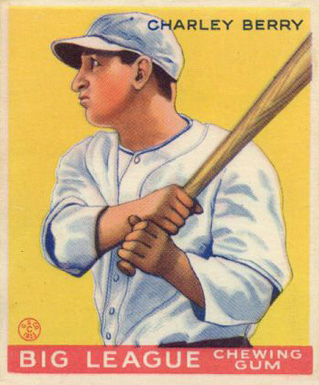 1933 Goudey baseball card of Charlie Berry of the Boston Red Sox #184. PD-not-renewed.